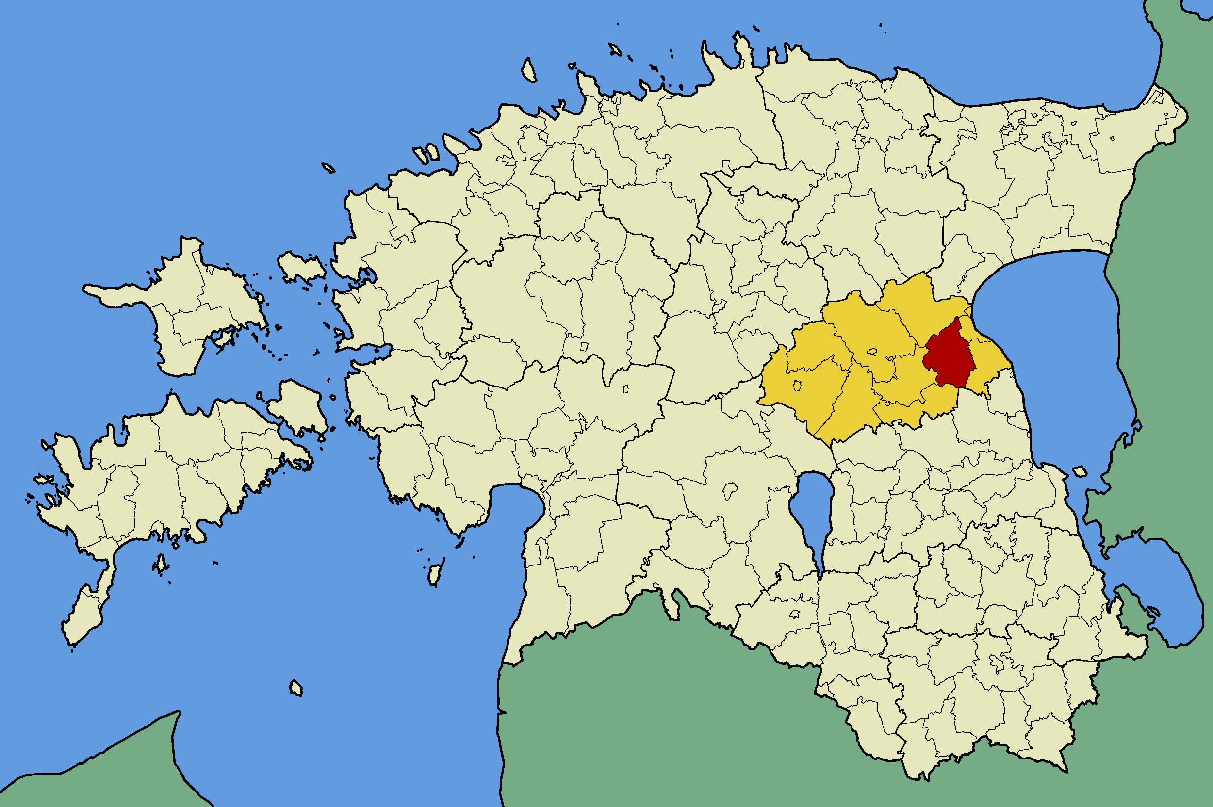 Map of Estonia with borders of municipalities (parishes). Jõgeva county and Saare municipality emphasized.